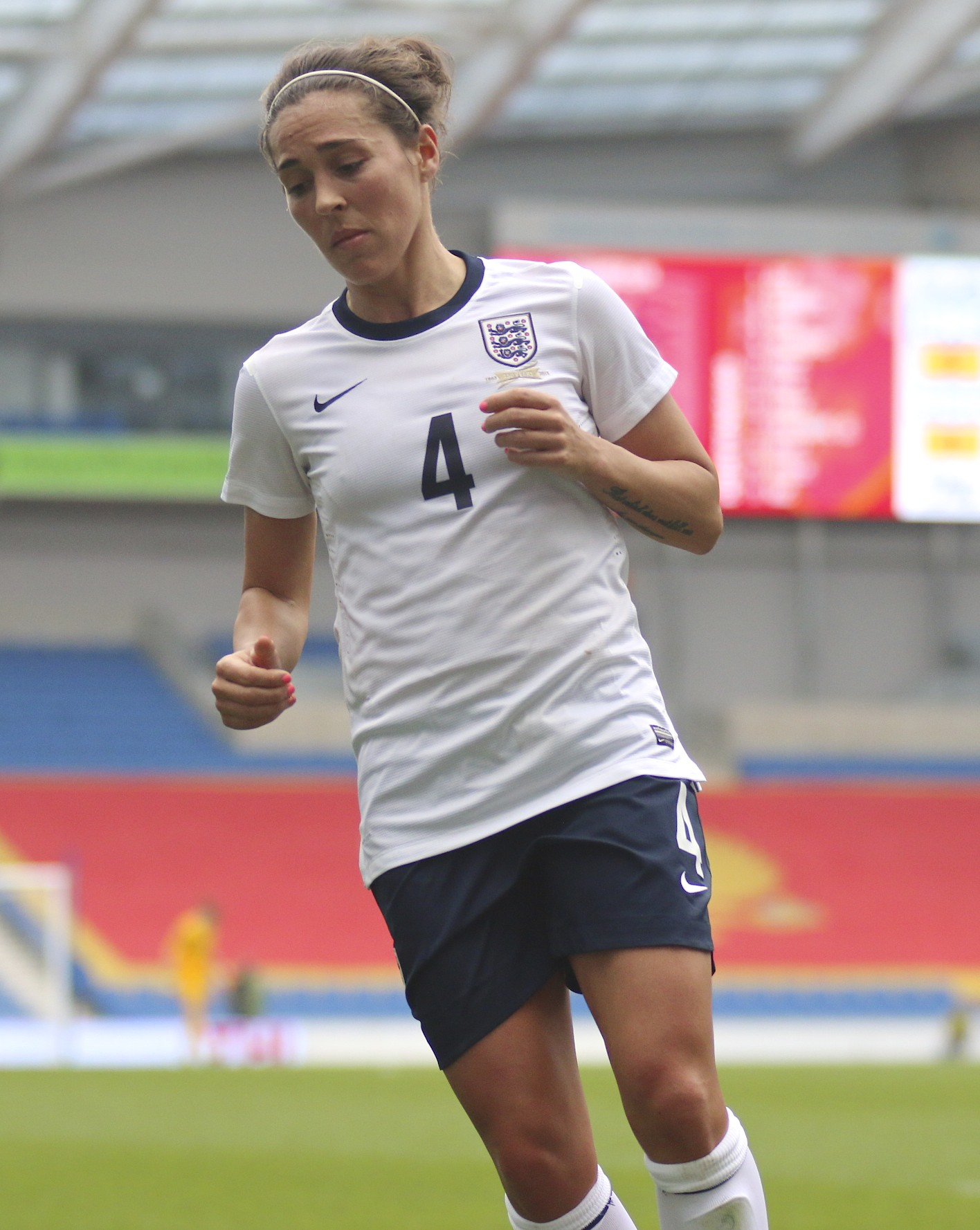 Fara Williams of England